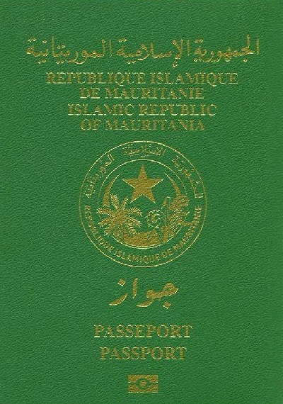 Front cover of a Mauritanian passport